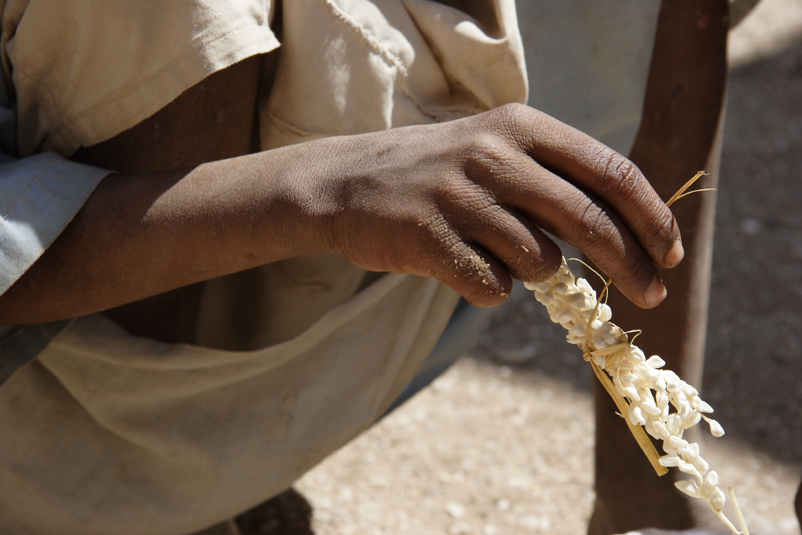 Boy on Suq Salamat with a pair of date pollen called Rabetah Qaru'ah (ربطة قرعة), Phoenix dactylifera date palms - Dar al-Manasir, Northern Sudan.